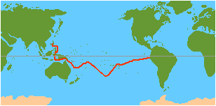 Journey of Luis Váez de Torres 1605 - 1607